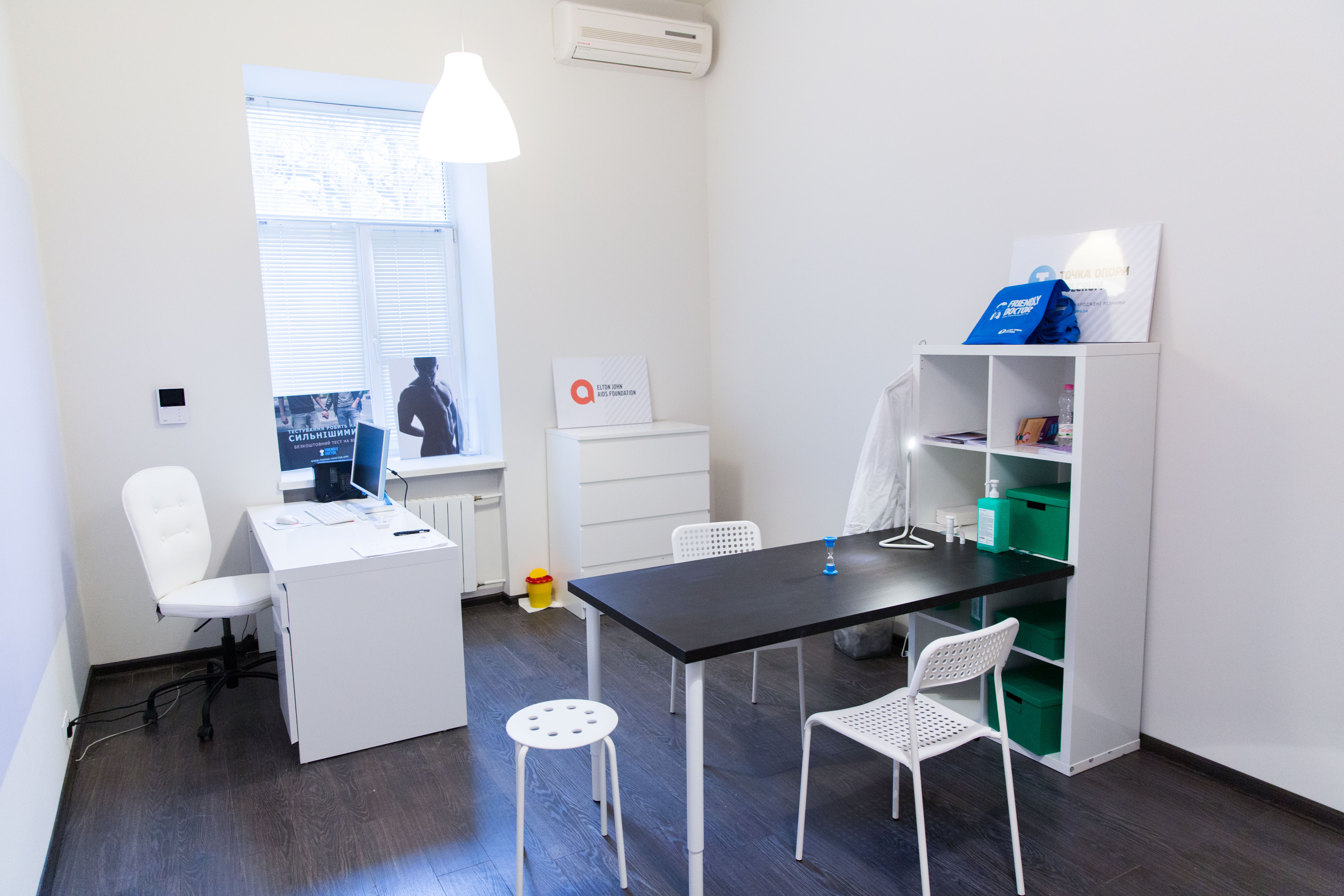 office friendlydoctor in Kiev